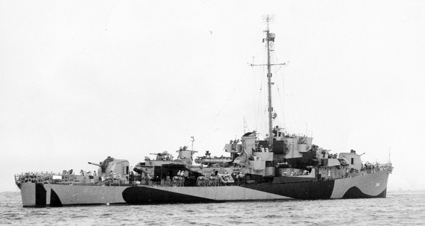 USS Oberrender in Boston on July 15, 1944, from starboard stern. Note how the black panel on the stern quarter does not wrap around the stern and there is an “extra” panel on the stern creating a gap.